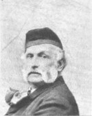 Photo of JosefBerres (1821-1912), Austrian painter.